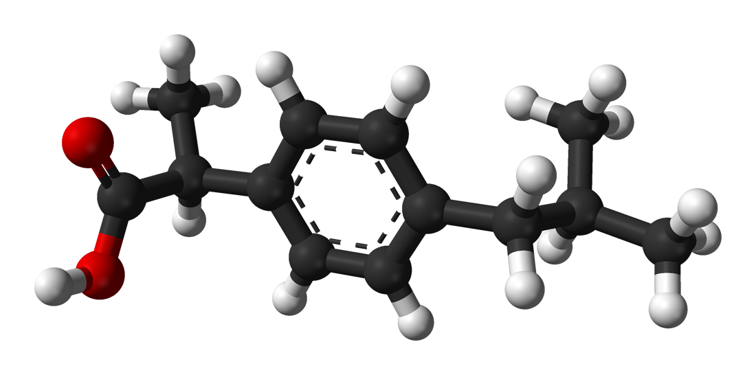 Ball-and-stick model of the (S)-ibuprofen molecule, based on neutron diffraction data from N. Shankland, C. C. Wilson, A. J. Florence and P. J. Cox (1997). "Refinement of Ibuprofen at 100K by Single-Crystal Pulsed Neutron Diffraction". Acta Crystallographica Section C 53: 951-954.